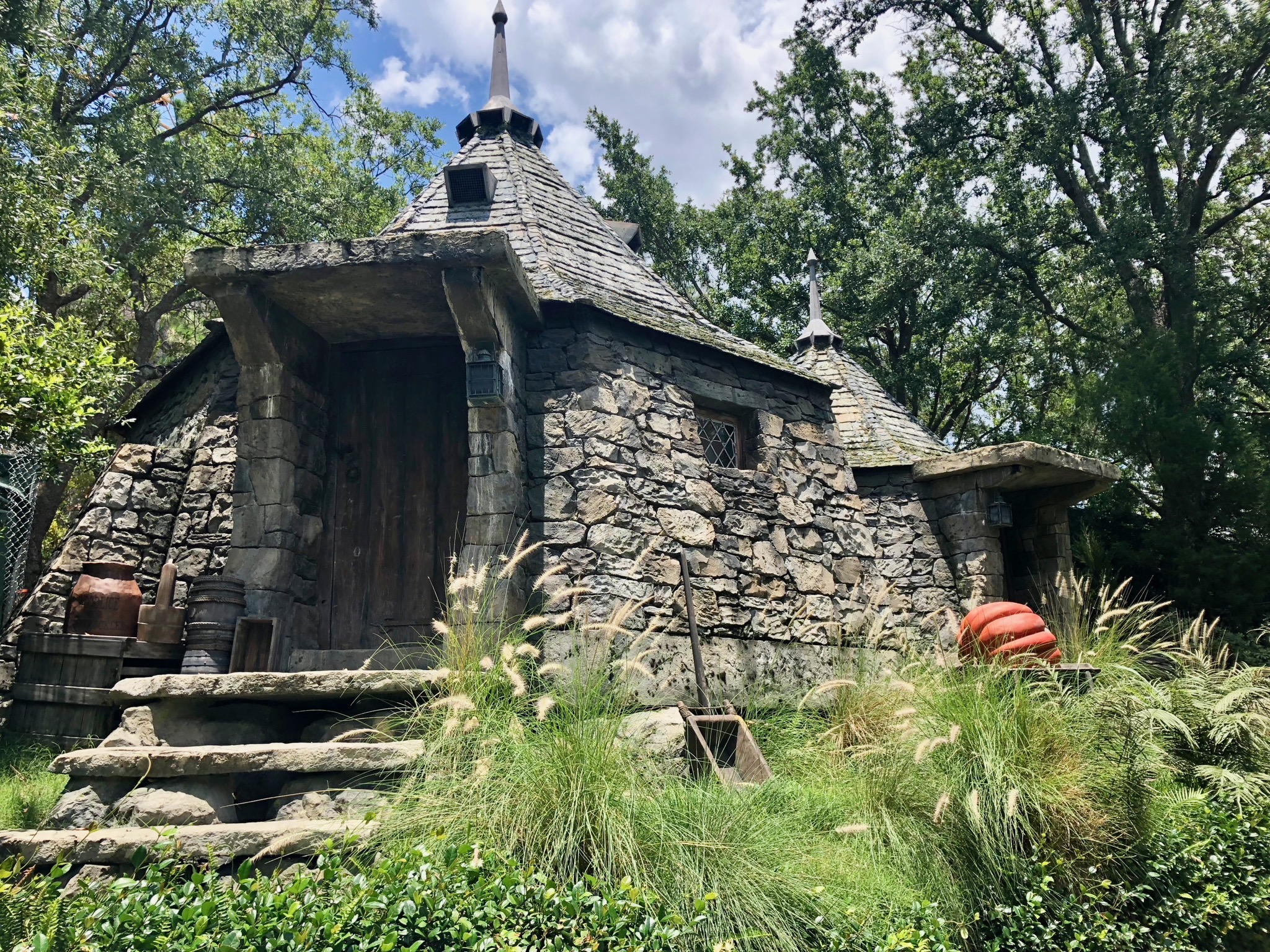 Hagrid's Hut at Universal Studios Orlando in June 2018